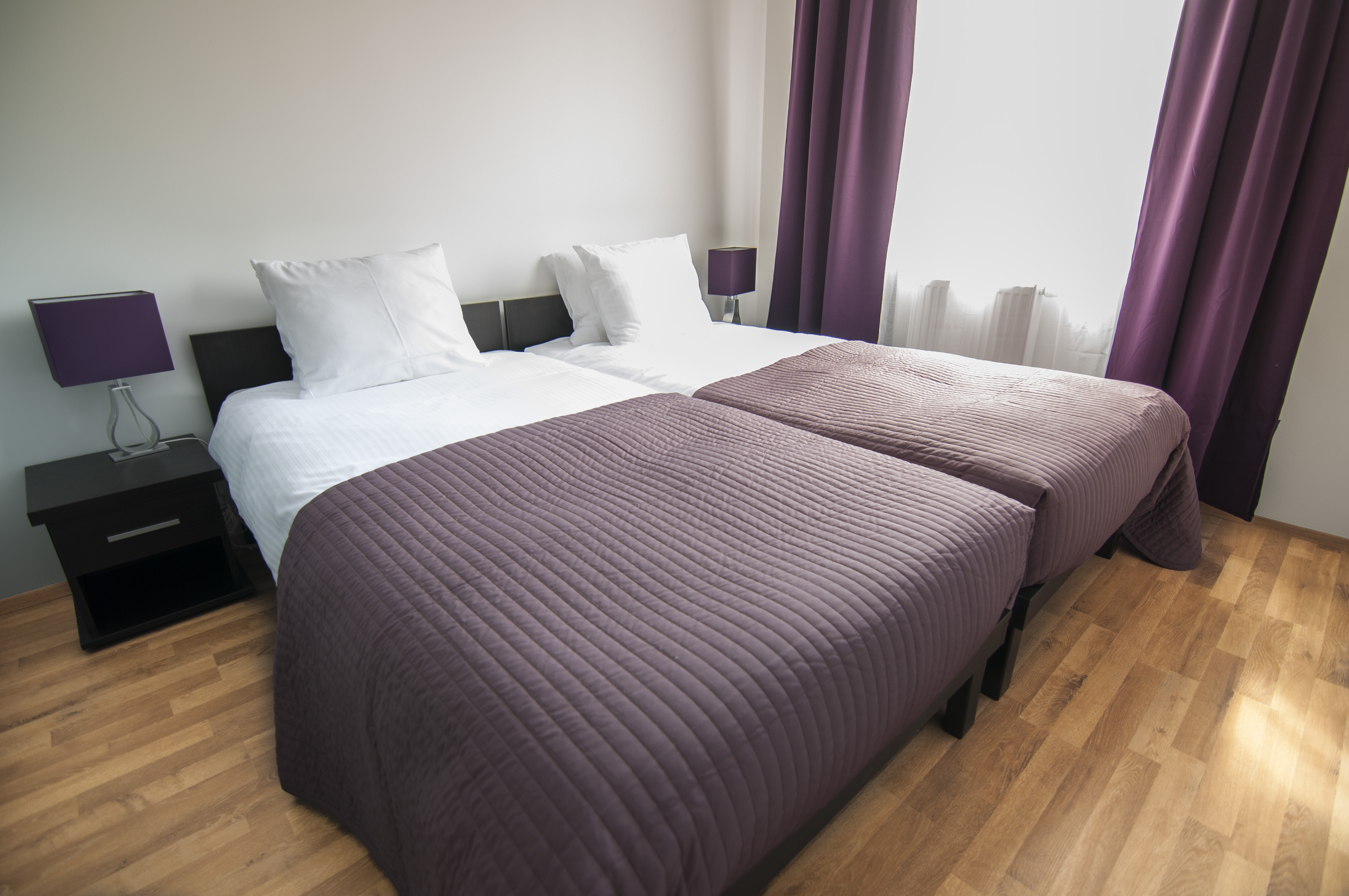 Suite bedroom